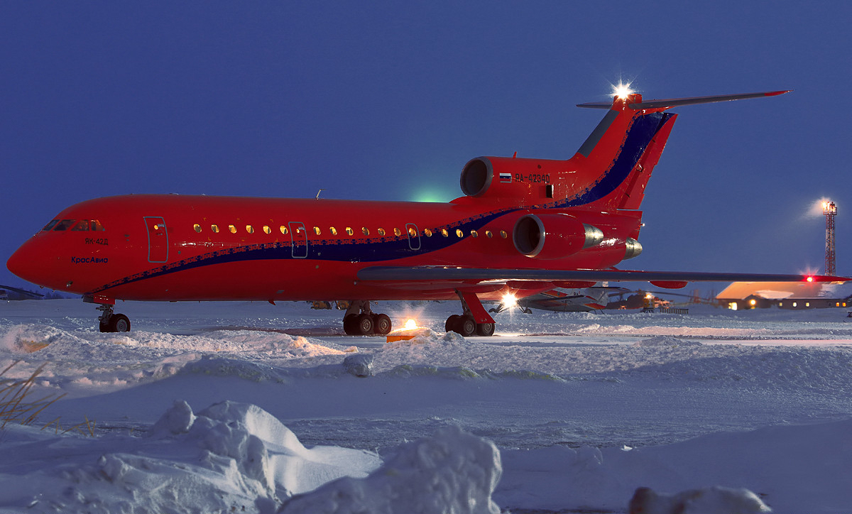 KrasAvia Yakovlev Yak-42D (RA-42340) at Naryan Mar Airport